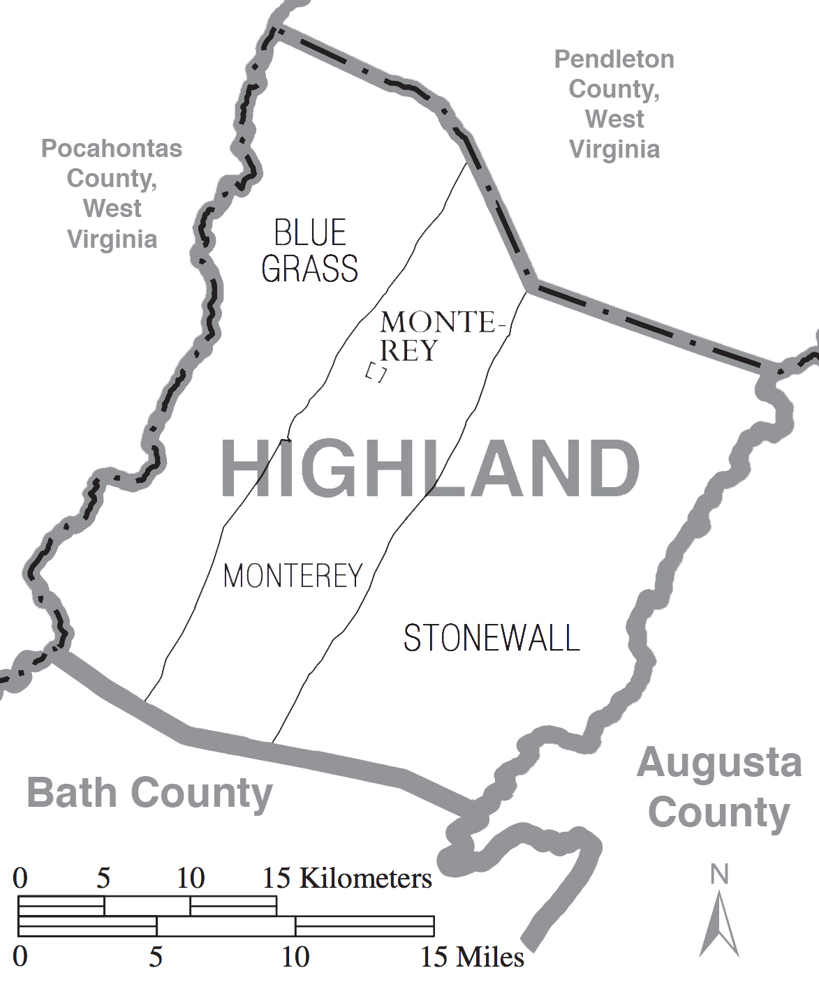 A map of Highland County, Virginia showing districts. Produced by U.S. Census Bureau, modified from original